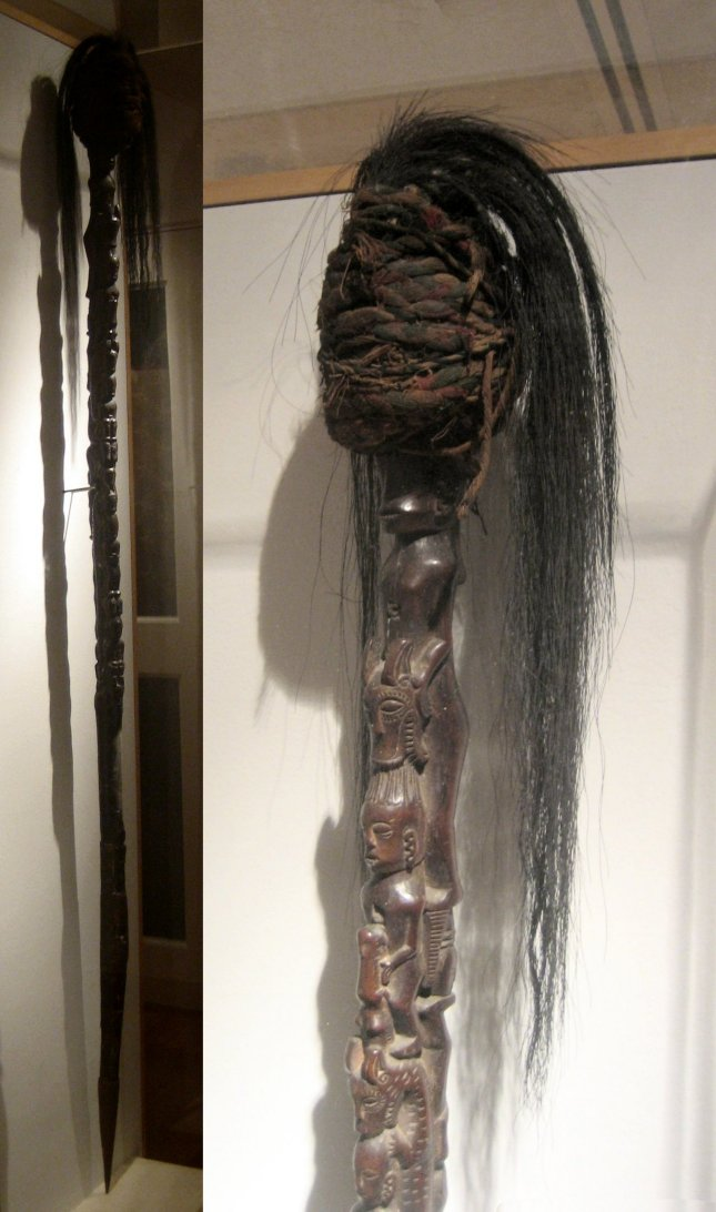 Tunggal panaluan (magic staff used by shamans of the Batak people), John Young Museum of Art, University of Hawaii at Manoa